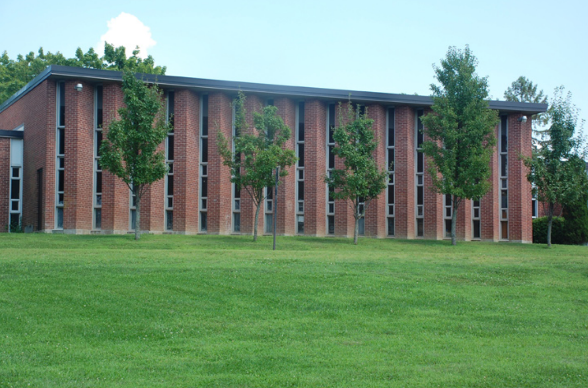 facade